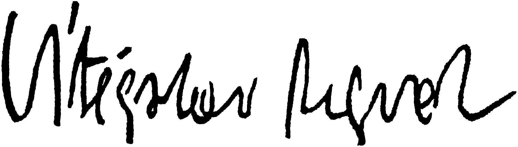 Signature of Czech writer Vítězslav Nezval